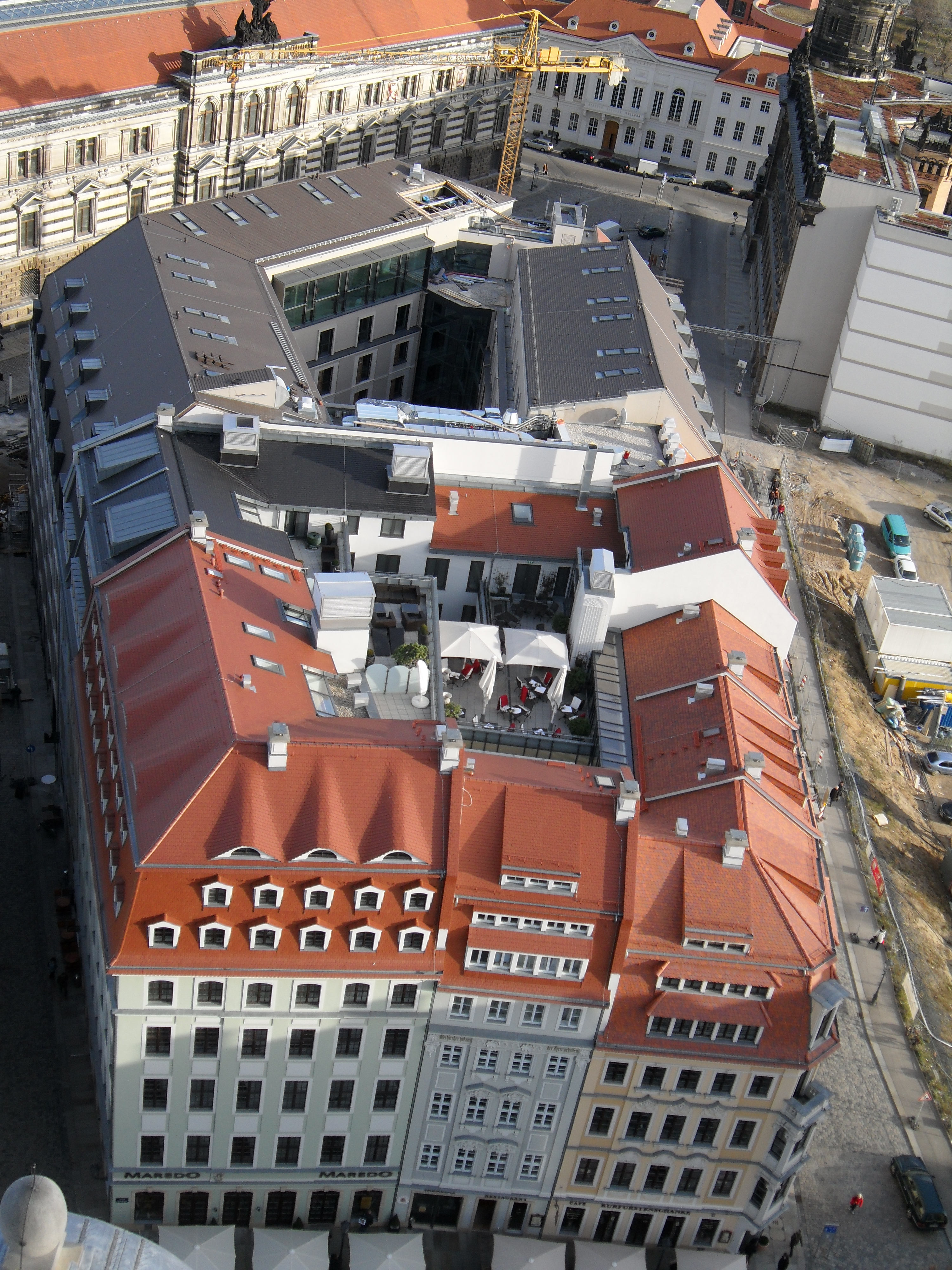 Quarter II of Neumarkt (Dresden), overview from Frauenkirche; in the background Albertinum (left) and Courland's Palace